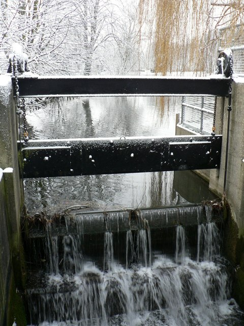 Close up view of weir at Cogglesford Mill, River Slea